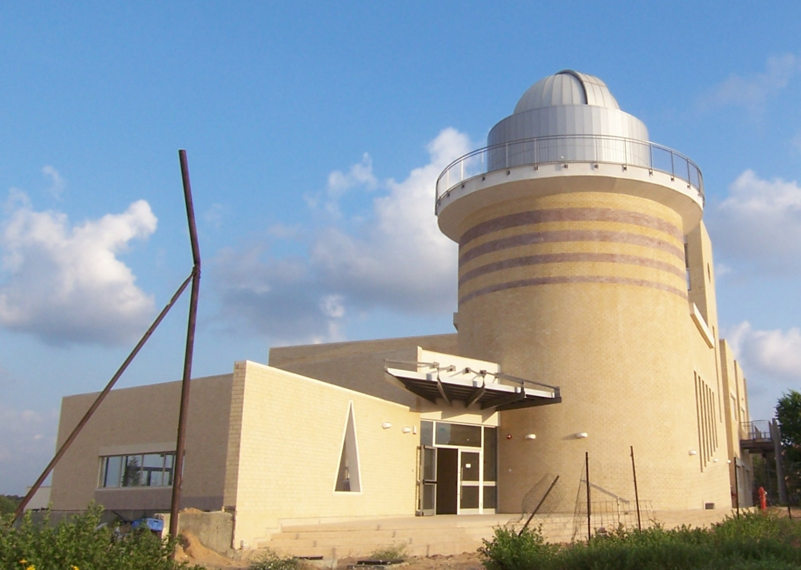 The Technoda science center in Hadera, Israel, just after completion.